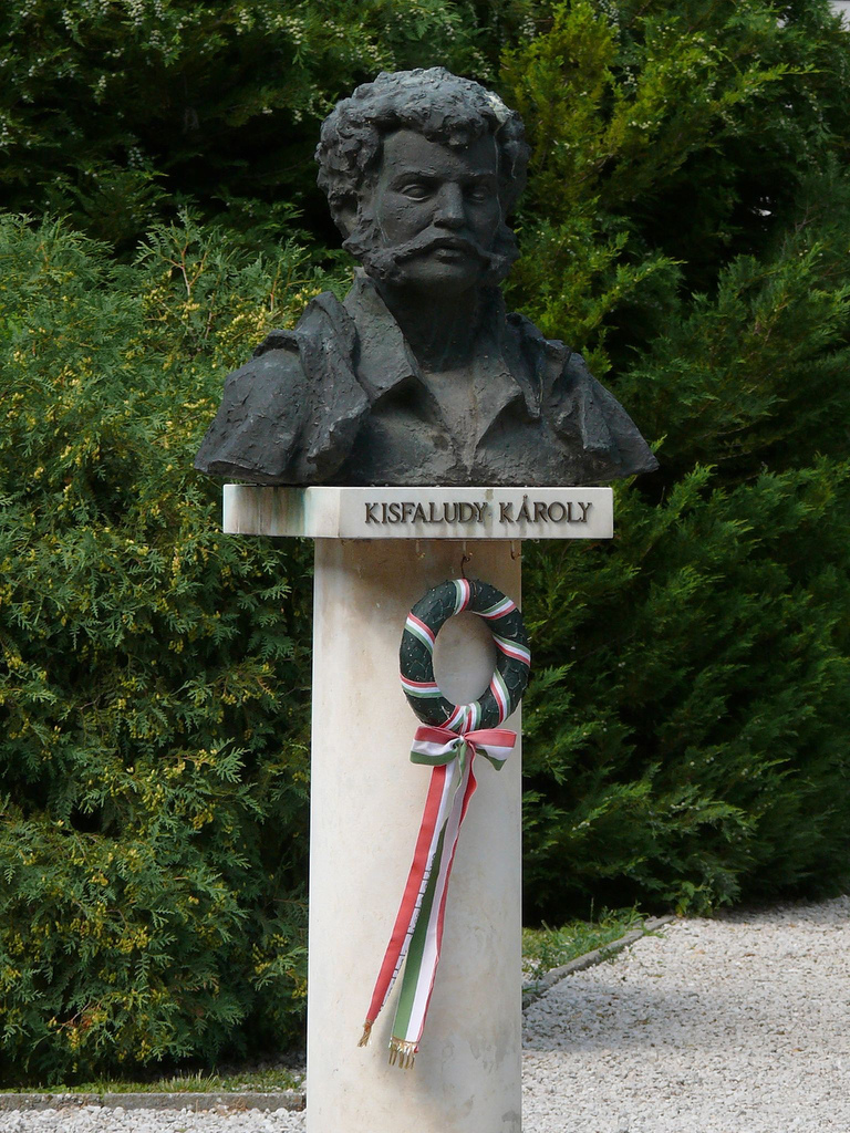 Statue of Károly Kisfaludy in the inner court of the Károly Kisfaludy High-School, Mohács, Hungary. Sculptor: Éva Mária Gábor (*1953) in 1985